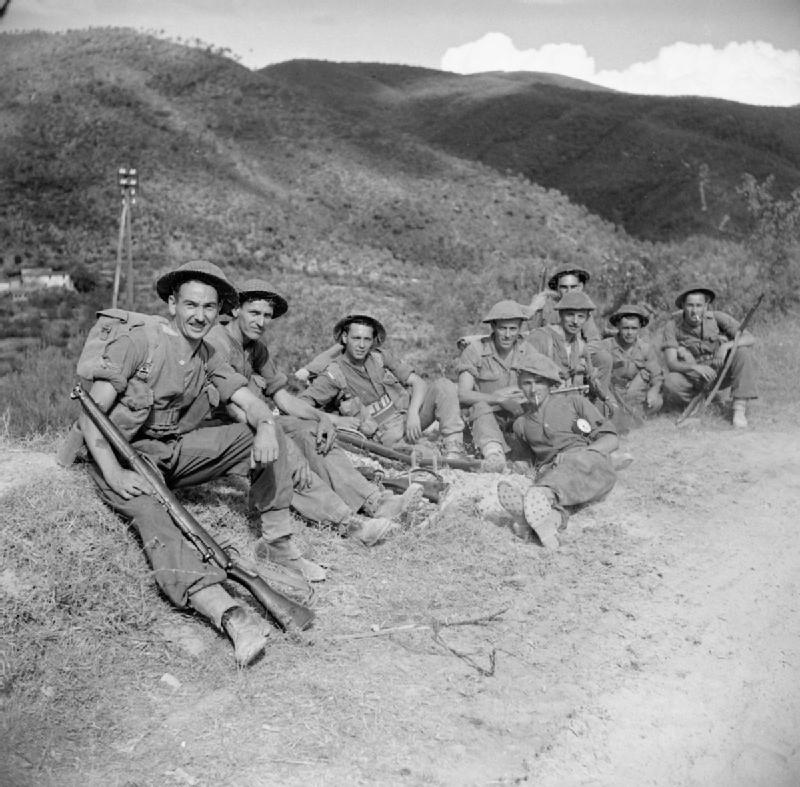 The British Army in Italy 1944 Men of the Royal West Kents rest by the roadside in mountainous terrain, 1 August 1944.